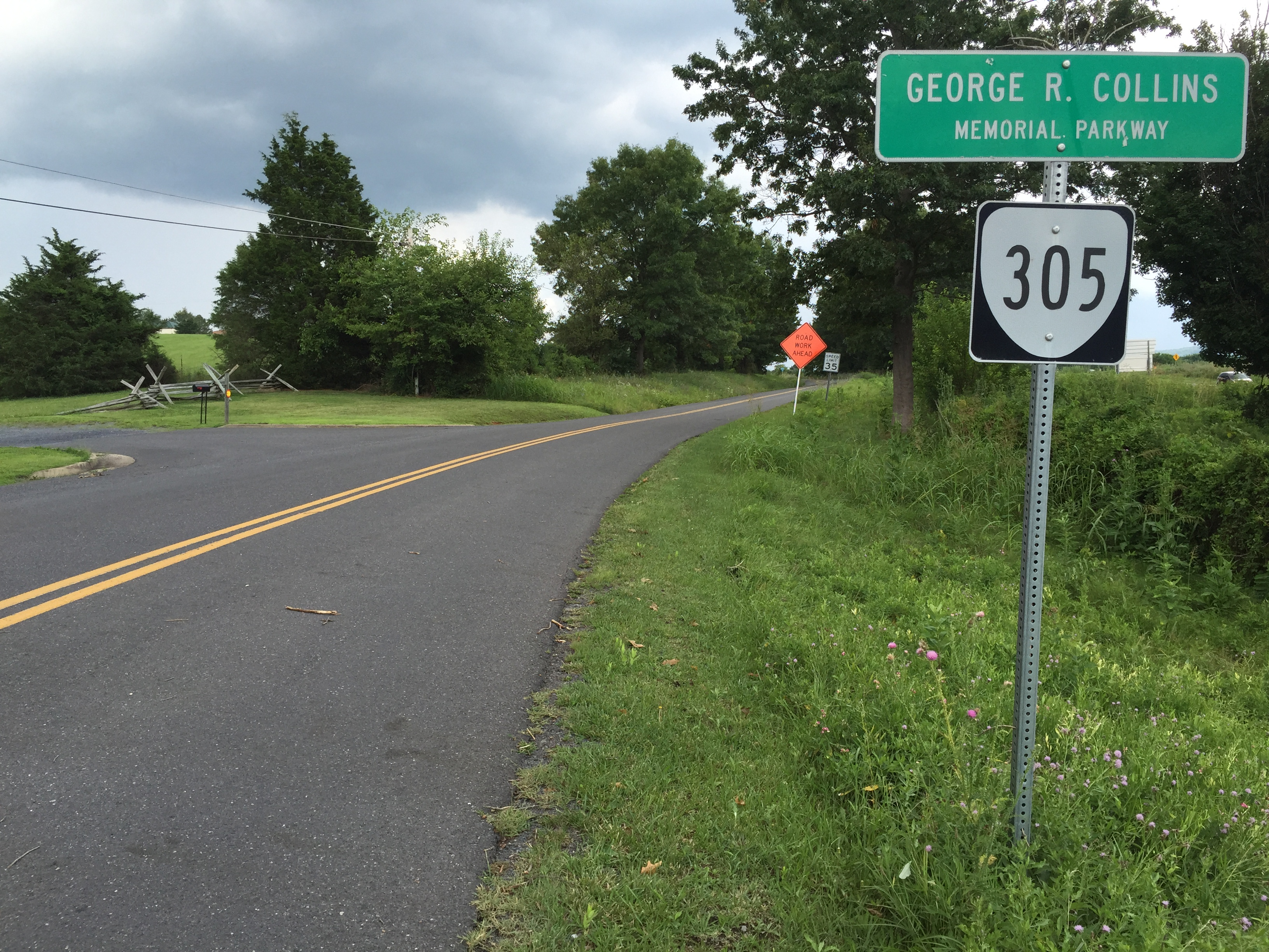 View north along Virginia State Route 305 (George R. Collins Memorial Parkway) at Old Cross Road (Virginia State Route 211) in New Market, Shenandoah County, Virginia